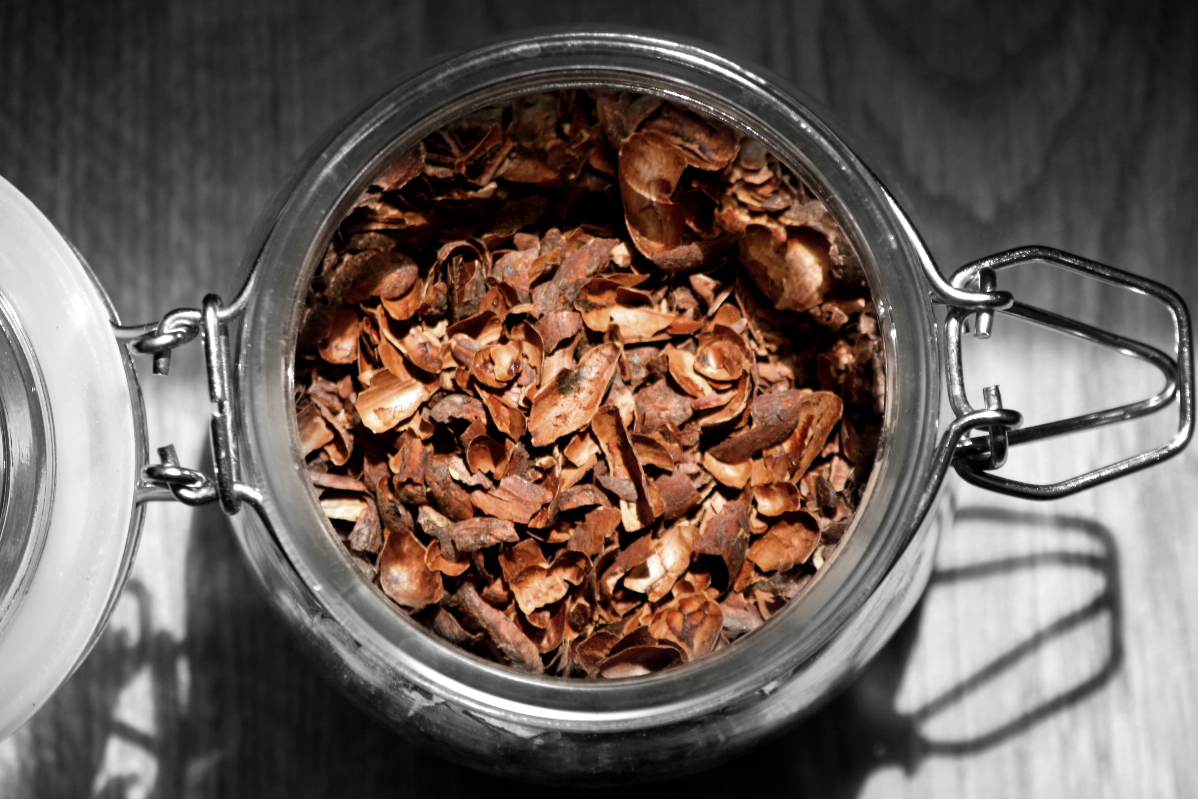 Cocoa husk.